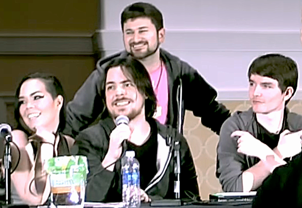 Members of the Game Grumps posing for a photo at MAGFest in 2015.